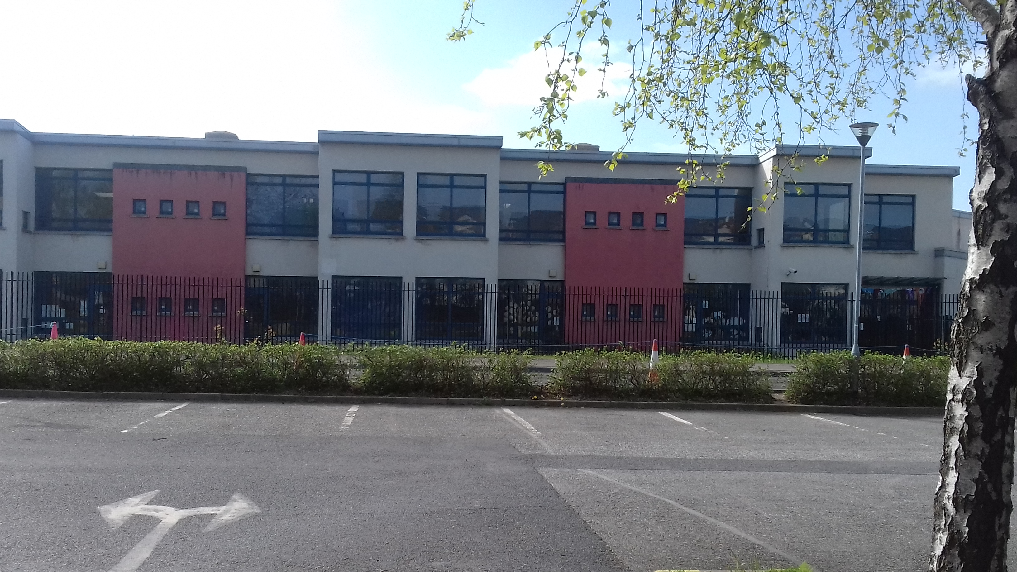 Two-story school building of the national school on Beechpark Avenue under the ethos of "Educate Together". Non-denominational. Close to Castleknock Lawn Tennis Club.